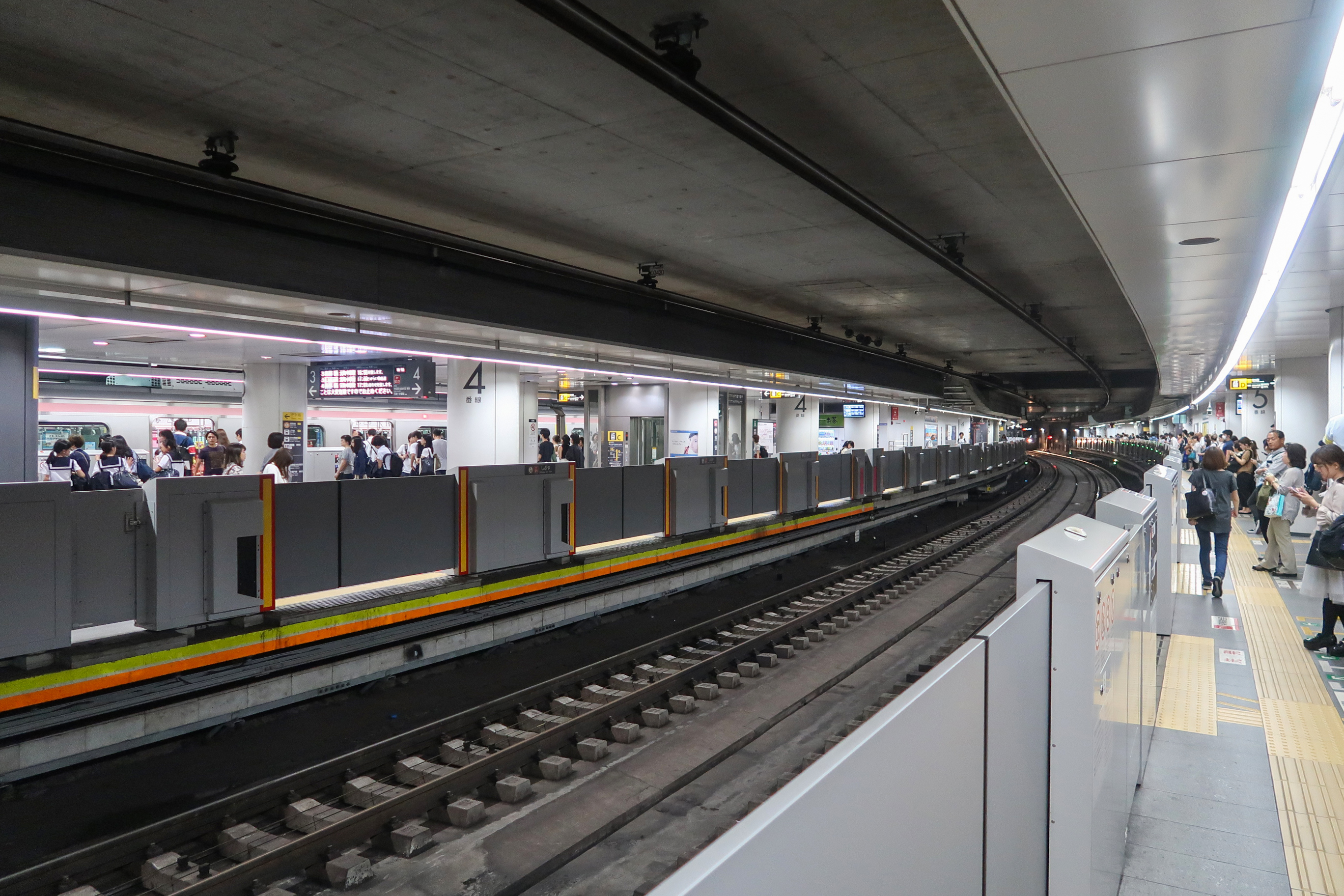 Shibuya Station Toyoko Line Platform 4&5